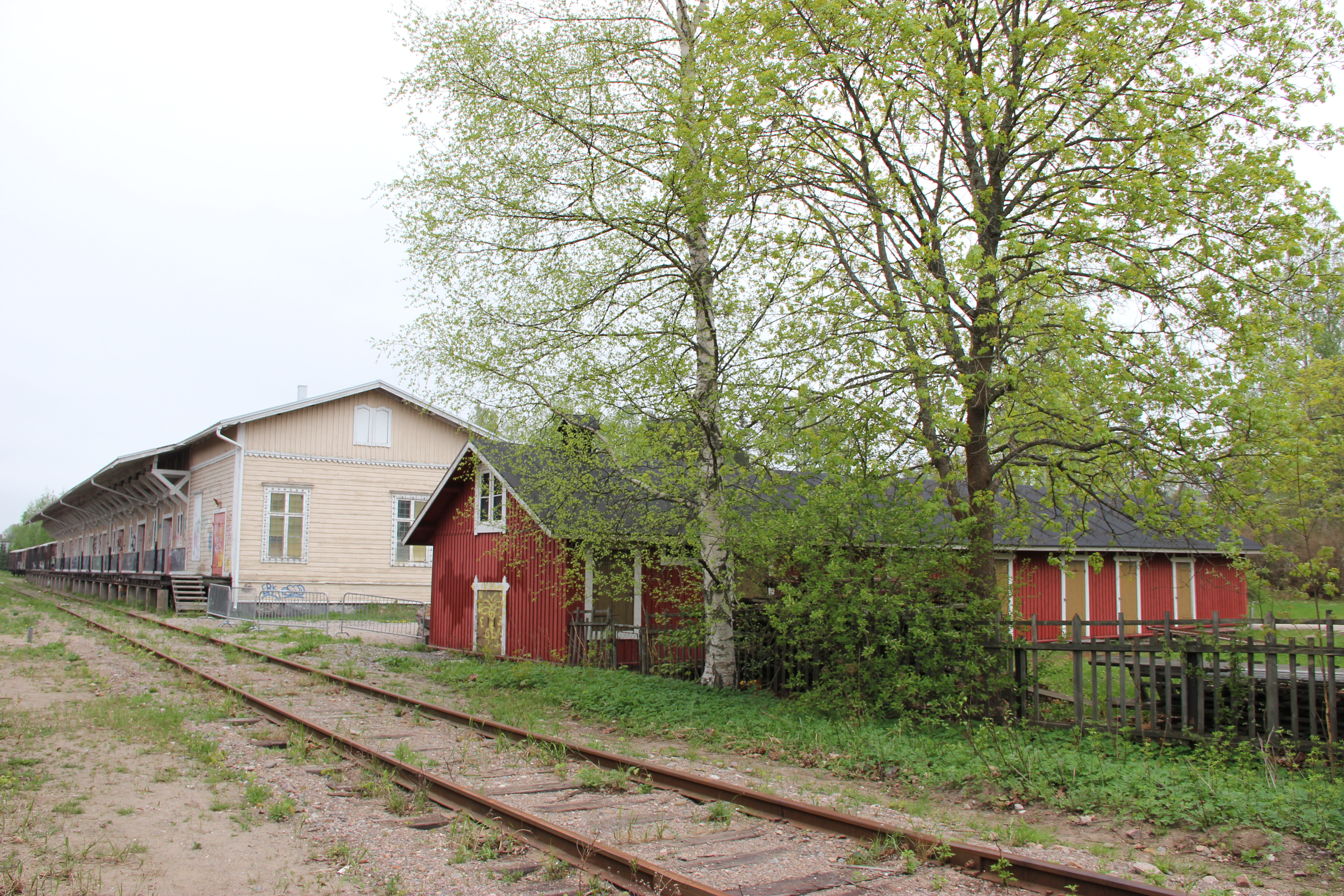 Old Hyvinkää railway station (Hanko-Hyvinkää railway) in the Railway Museum of Finland in Hyvinkää, Finland